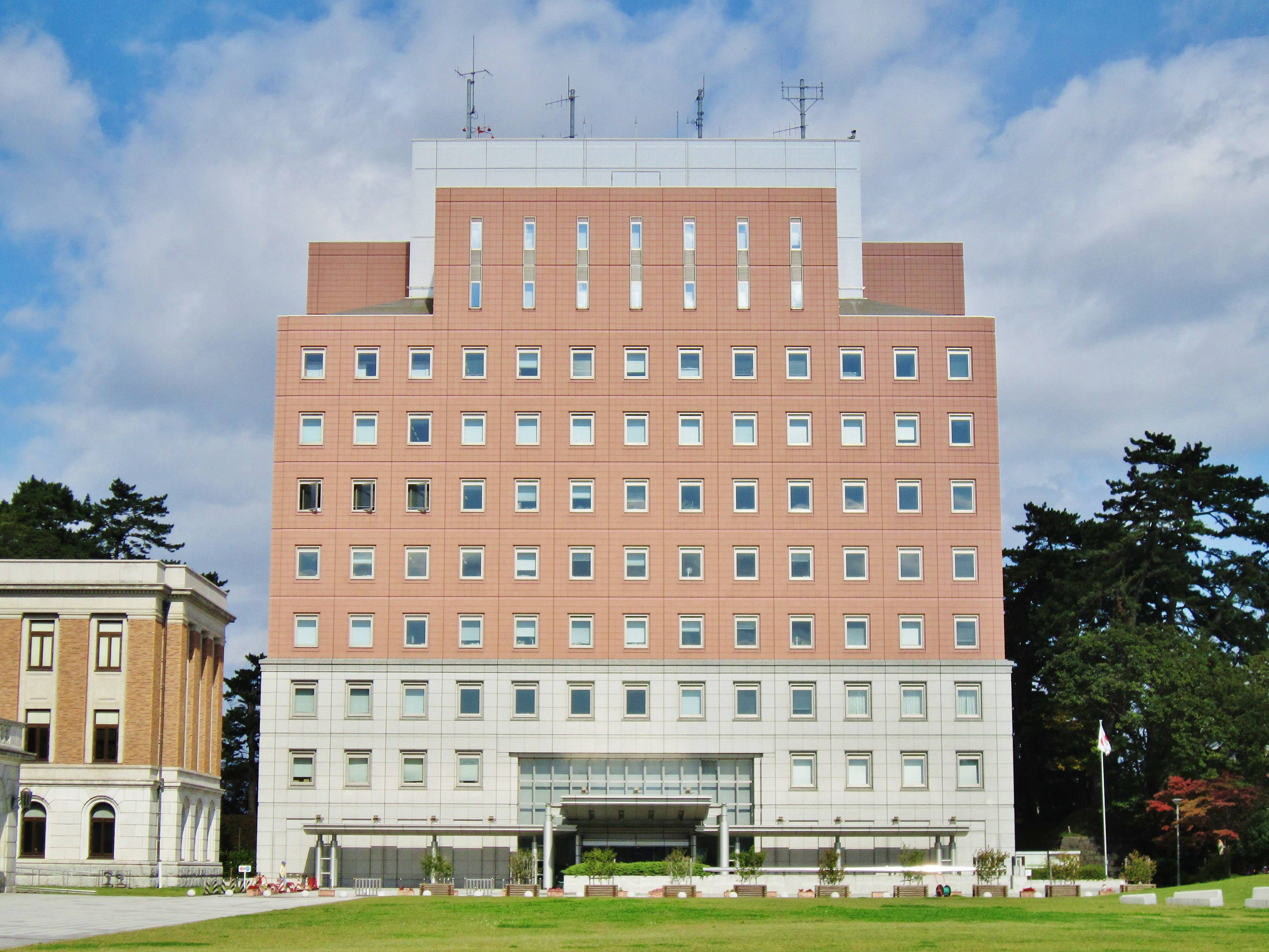 Gunma Prefectural Police Headquarters.